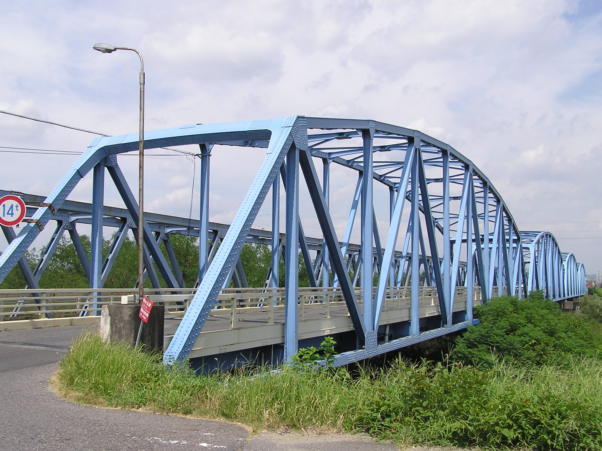 The Koda Bridge (Koda-bashi) on the border of Ichinomiya City, Aichi Prefecture and Kakamigahara City, Gifu Prefecture